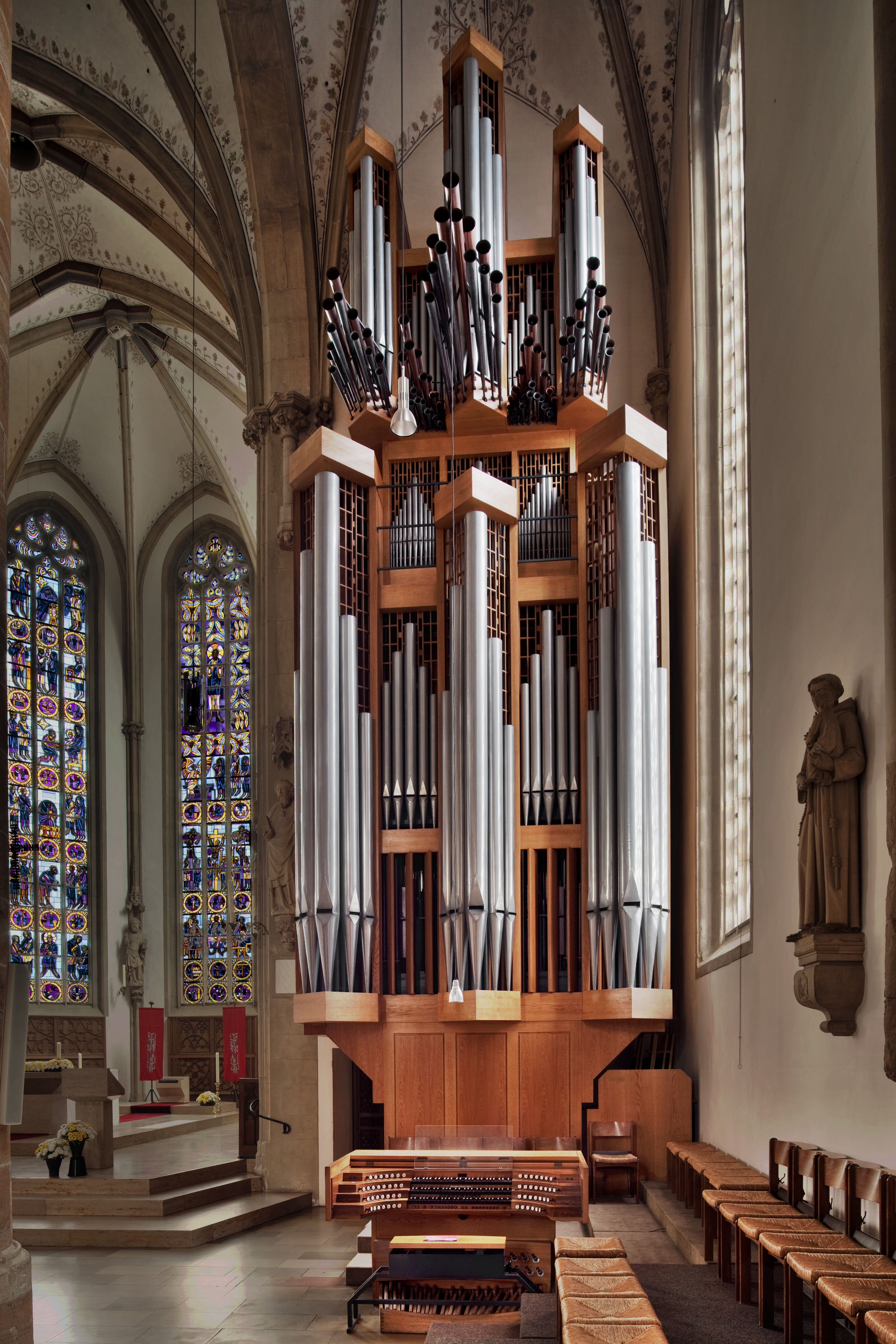 Klais organ, Rheine Germany